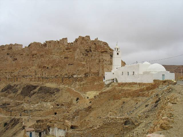 The ruined village of Chenini in southern Tunisia